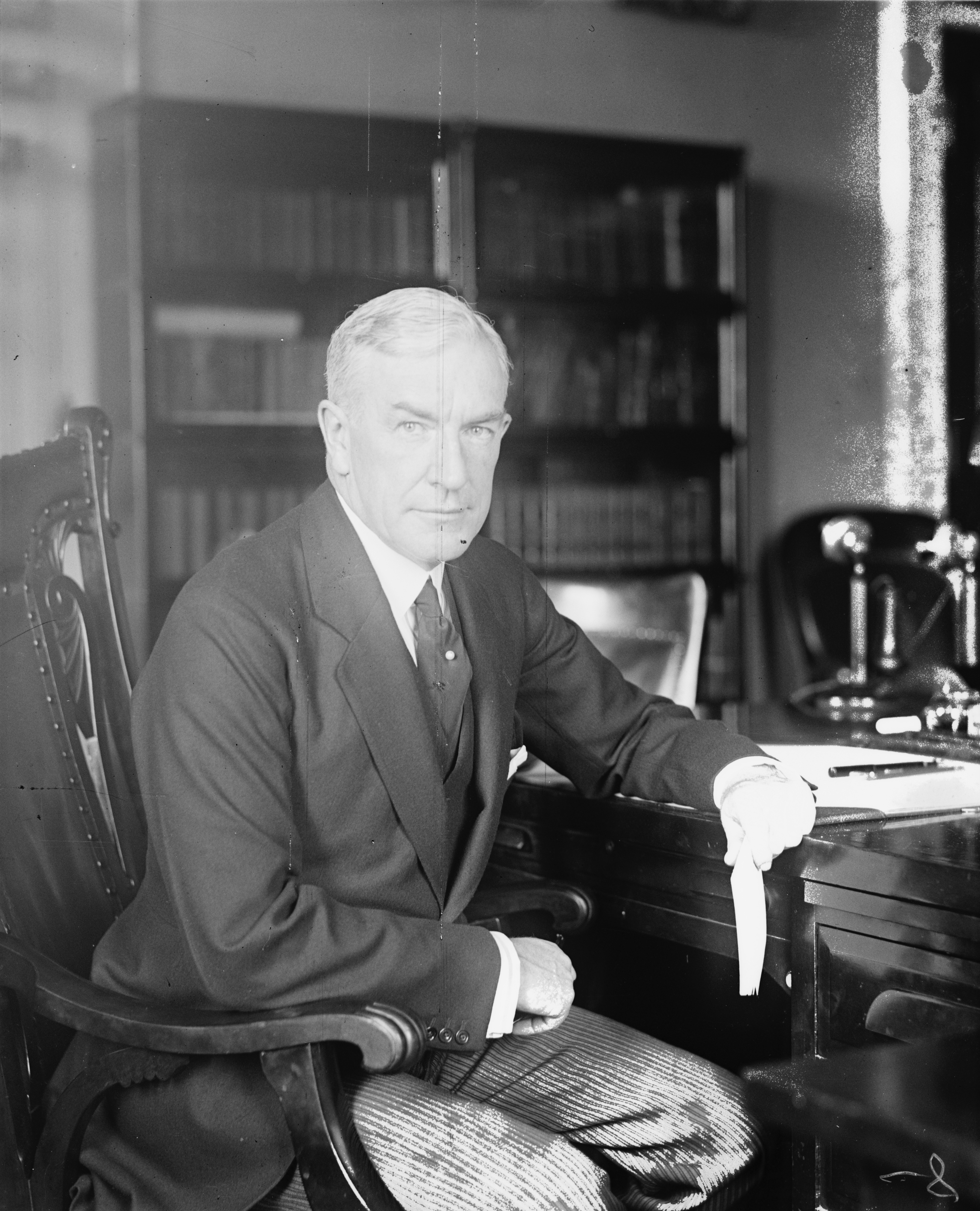 Henry P. Fletcher (1873–1959), an American diplomat.